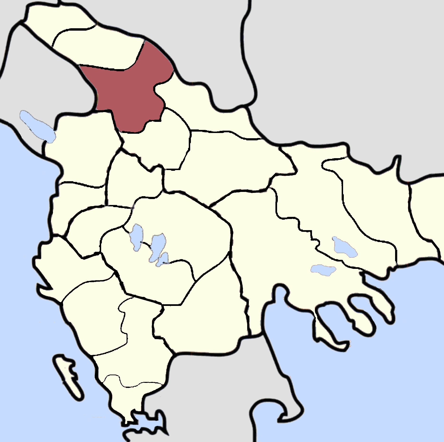 XY Sanjak, Ottoman Empire (late 19th century). Source: The Crescent and the Eagle- Ottoman Rule, Islam and the Albanians, 1874-1913 at Google Books By George Gawrych